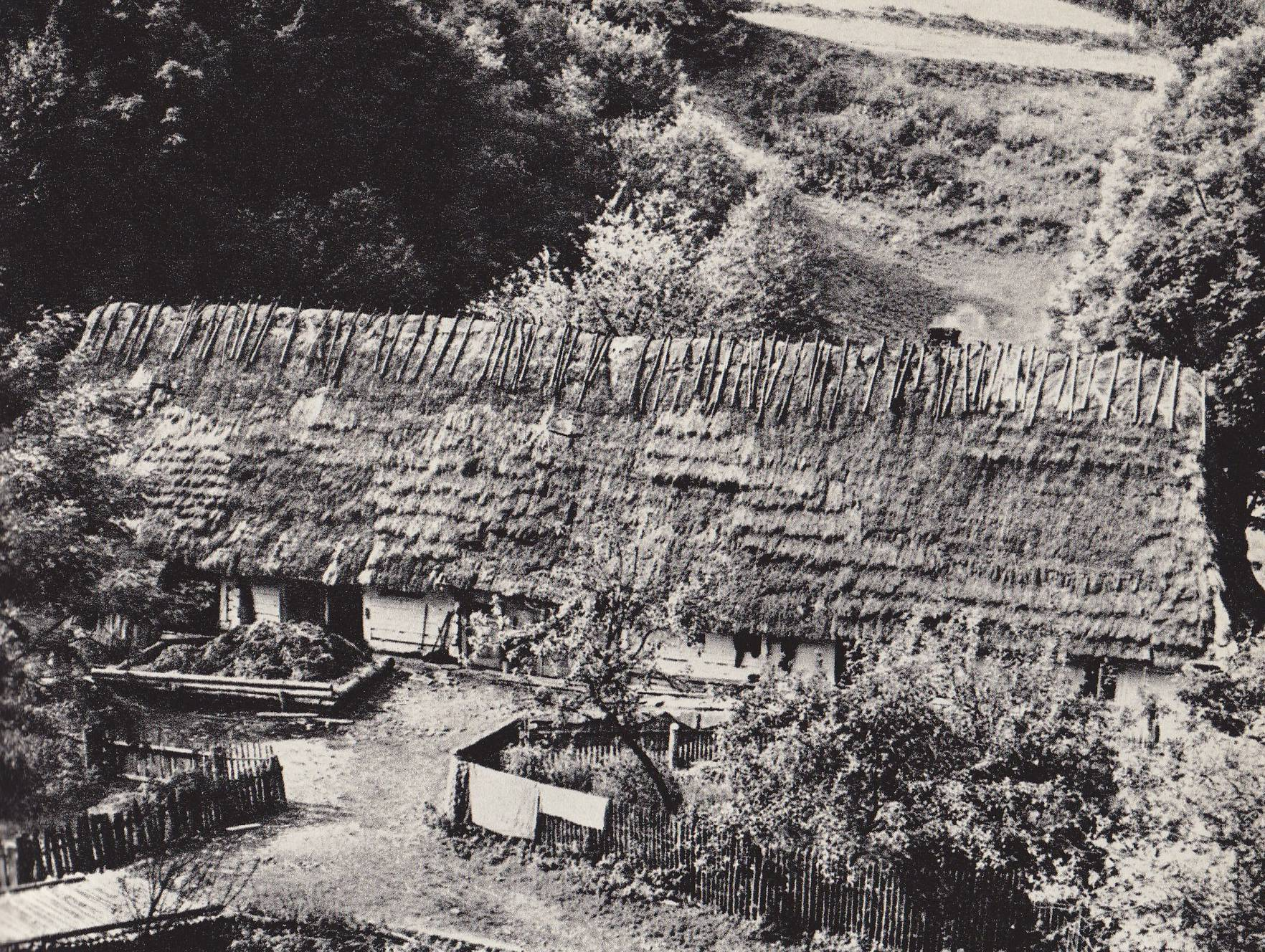 Lemko house in Cisna